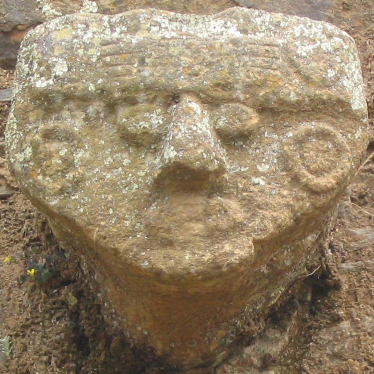 sculpture at Willkawain Temple in Peru, Ancash